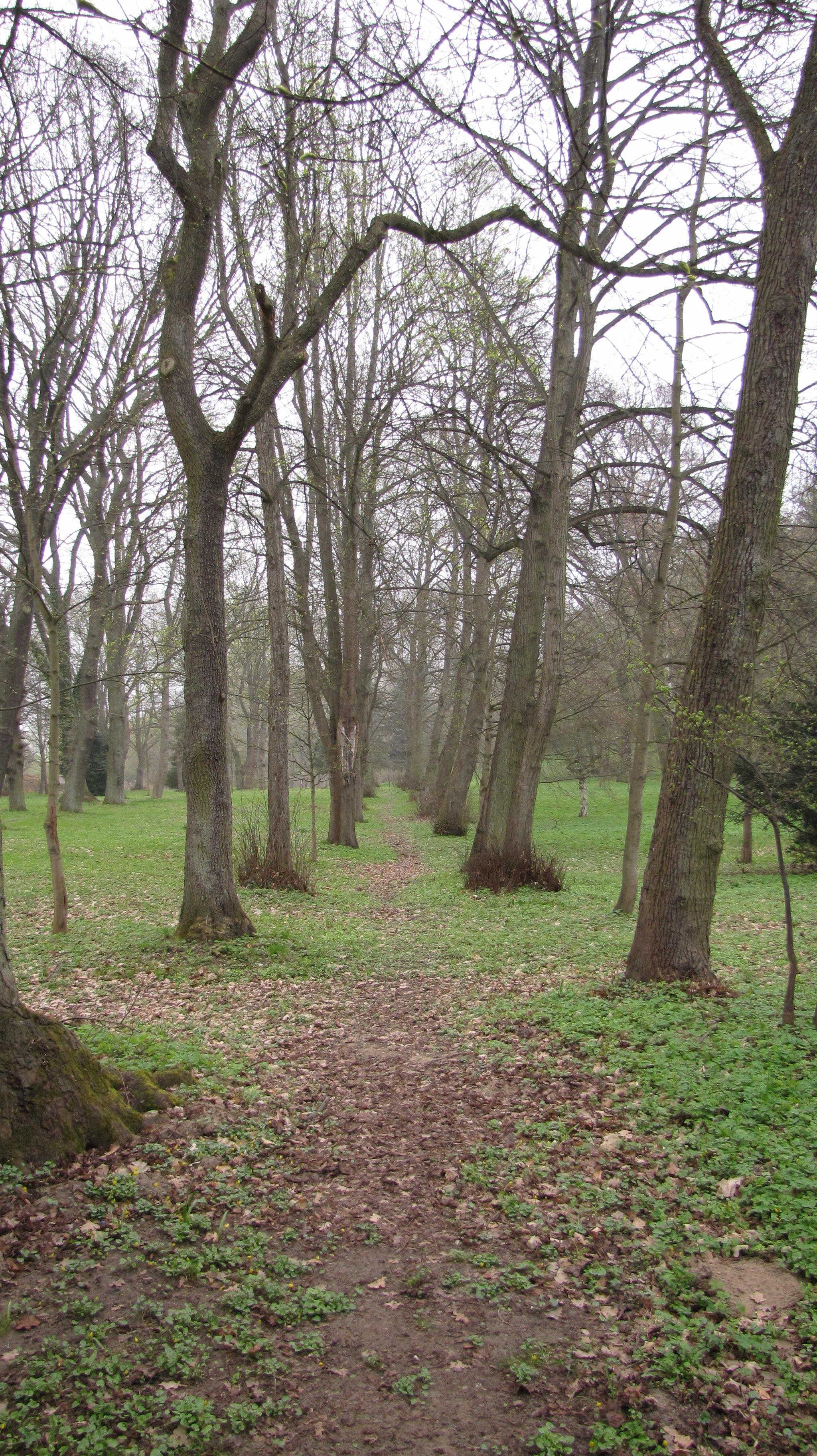 Sachsenberg (Schwerin)